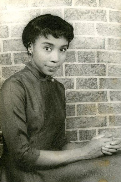 Diahann Carroll photographed by Carl Van Vechten Diahann Carroll